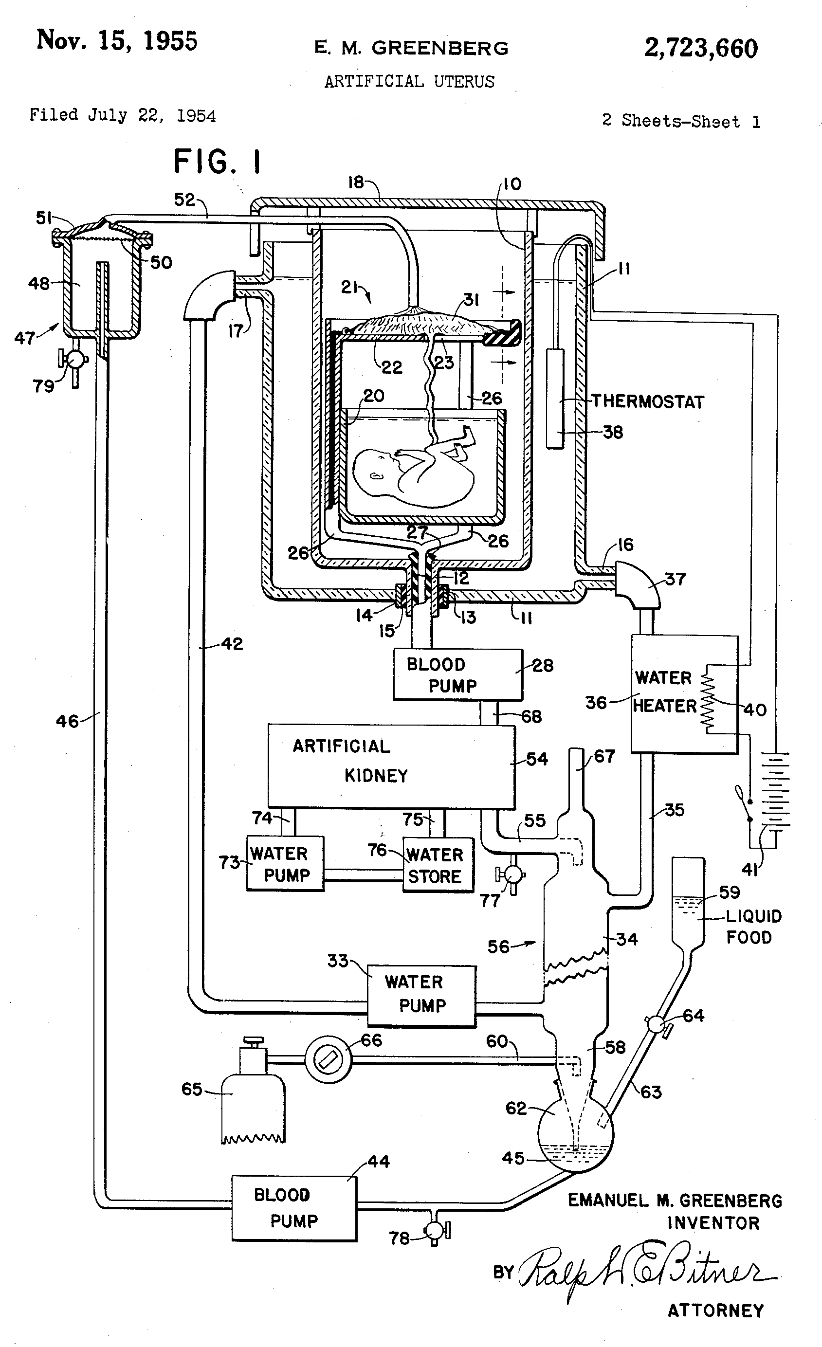 Illustration from US patent 2723660A from 1954